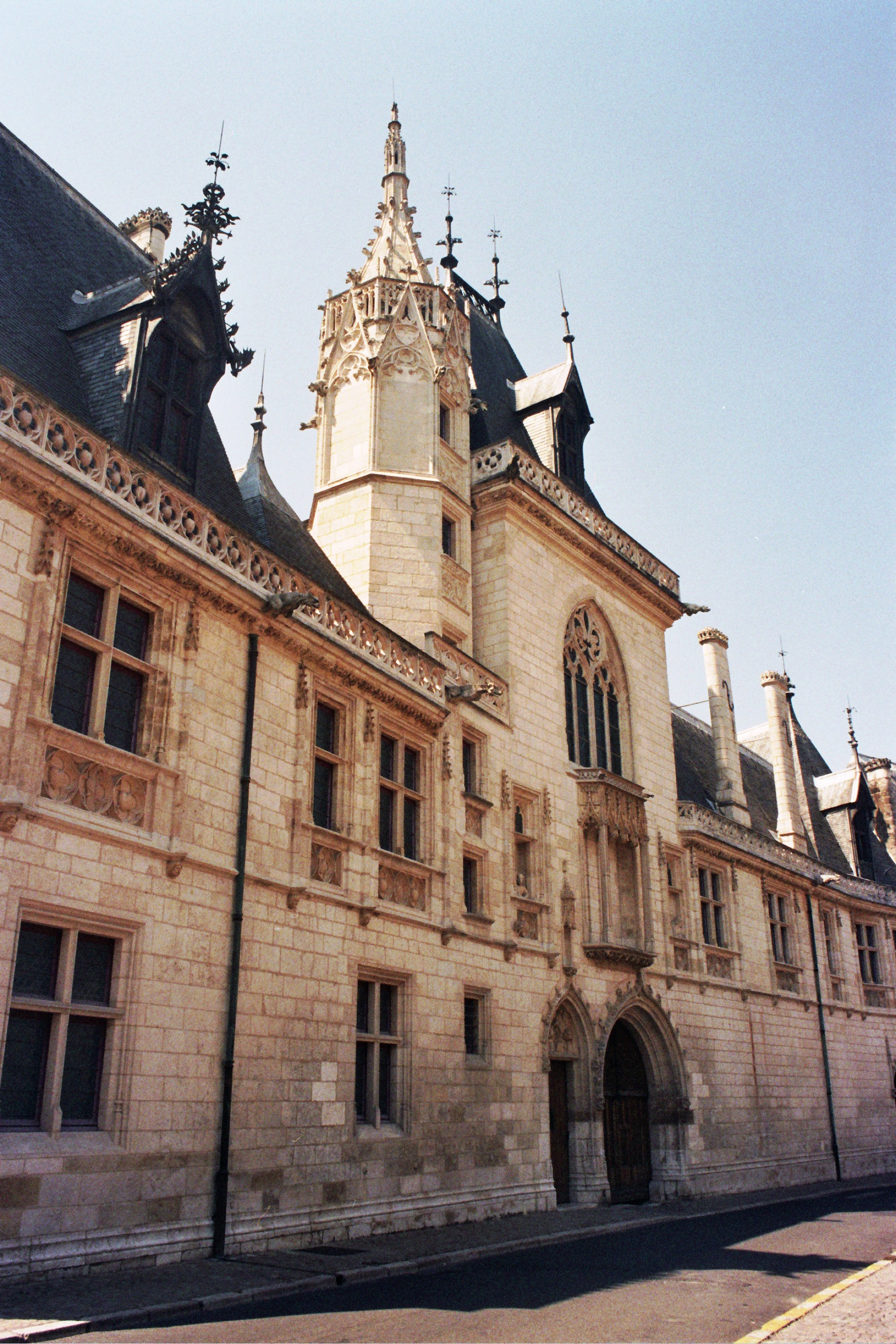 Jacques Cœur's palace